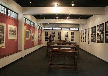 Interiores del Centro Cultural de la Municipalidad de Jesús María "Sérvulo Gutiérrez" - Av. Horario Urteaga N° 535 Jesús María (Lima Perú)